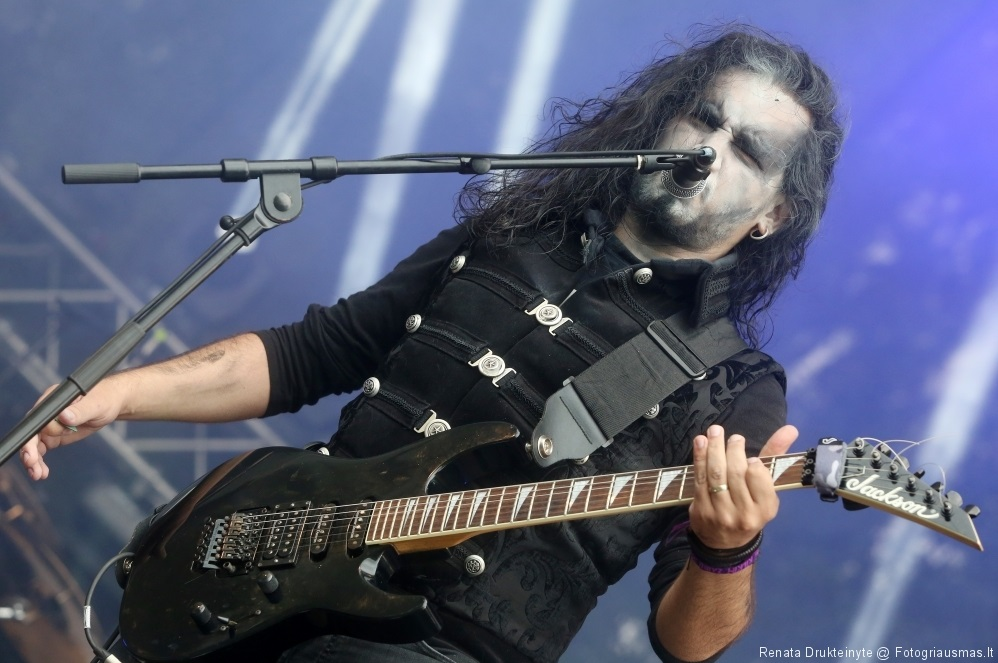 doukal